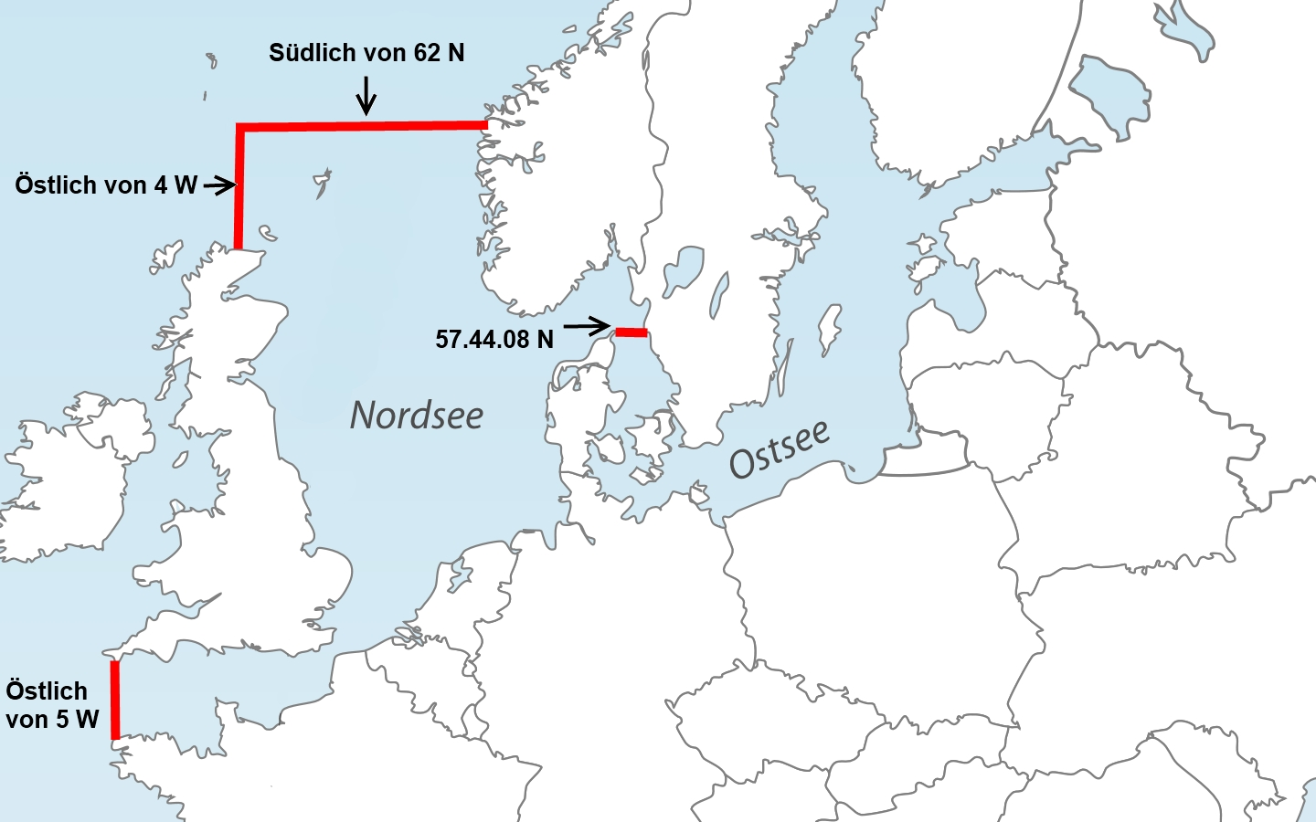 Map with German names and SECA borders (Sulphur Emission Control Area). First zone (north sea, NORDSEE in german) is East to Commonwealth. Second zone is the Baltic sea (OSTSEE in german).